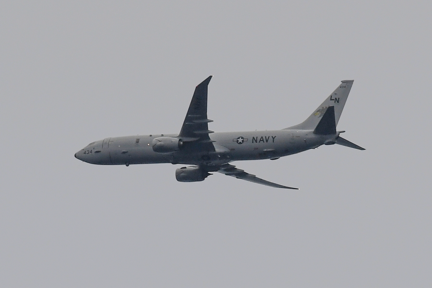 A U.S. Navy Boeing P-8A Poseidon (BuNo 168434) assigned to Patrol Squadron 45 (VP-45) "Pelicans" from commander, Task Force 67 participates in a photo exercise during exercise "Dynamic Manta 2017" in the Mediterranean Sea. The annual multilateral Allied Maritime Command exercise is meant to develop interoperability and proficiency in anti-submarine and anti-surface warfare.